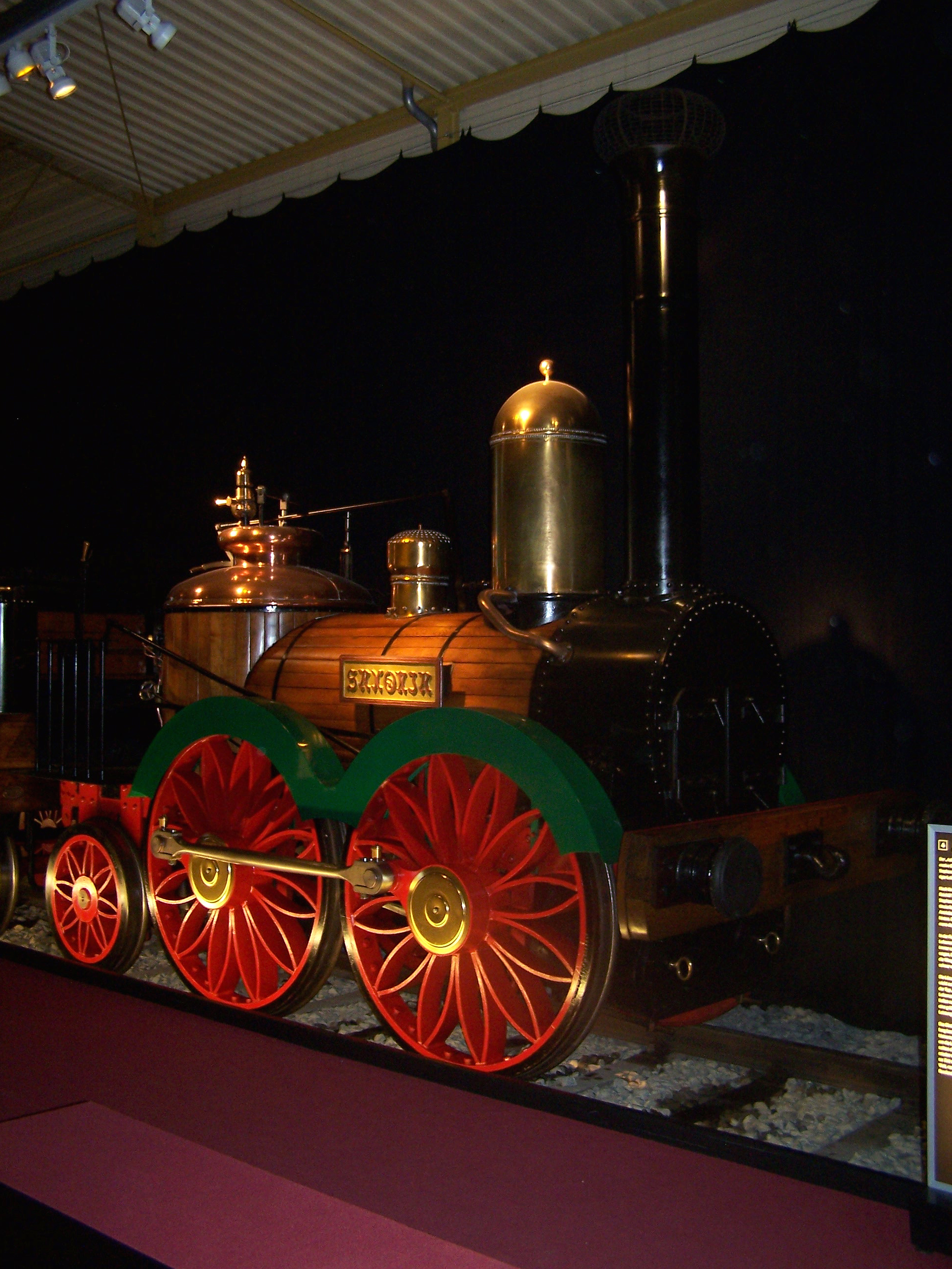 Replica from 1989 of the historic steam locomotive Saxonia from 1838 in the Transport Museum in Nuremberg in the exhibition "Adler, Rocket and Co."